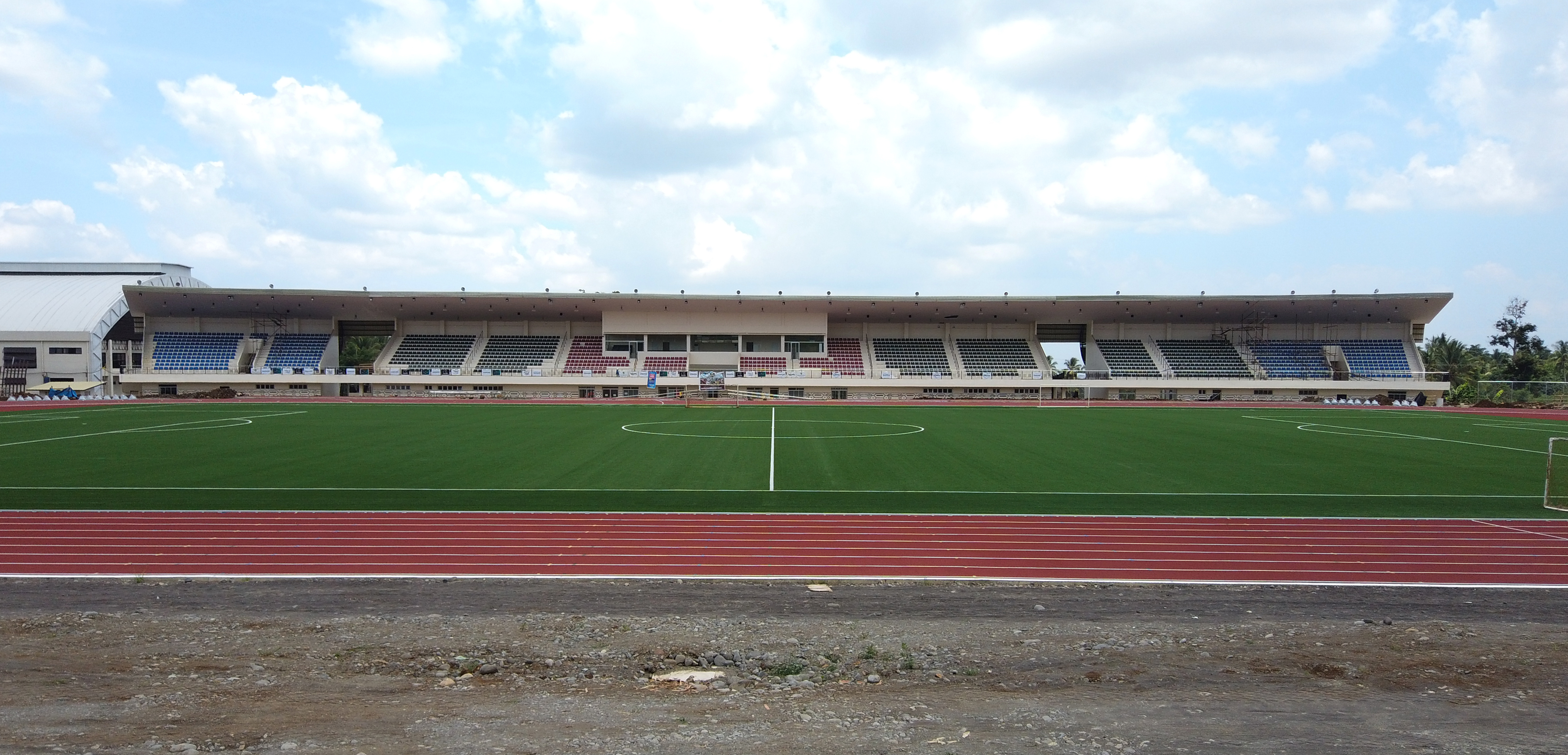 The Davao City Sports Complex in the University of the Philippines Mindanao campus